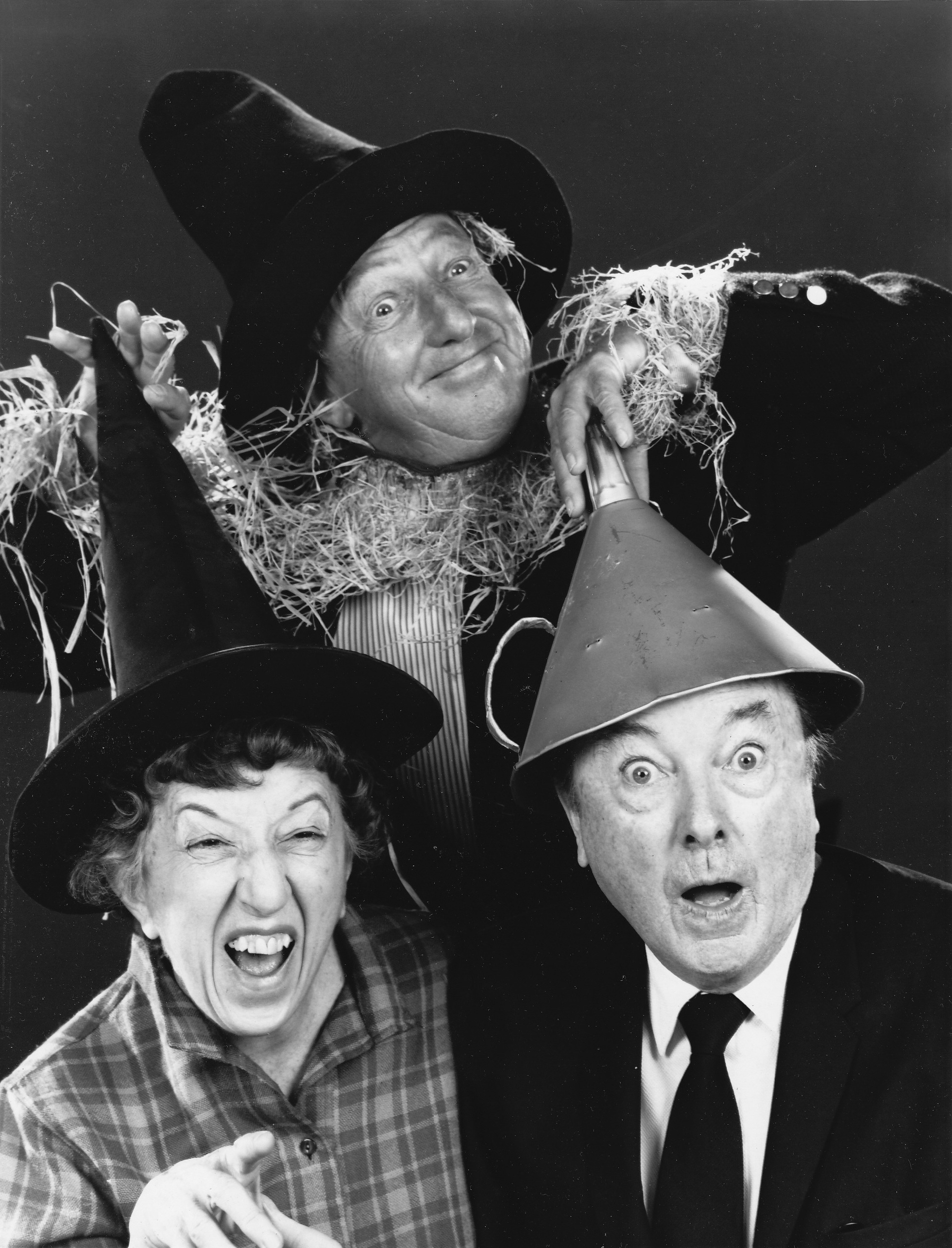 Publicity photo of American entertainers, (top) Ray Bolger, (bottom; L–R) Margaret Hamilton and Jack Haley, reunited in 1970 in commemoration of their roles as the Scarecrow, the Wicked Witch of the West and the Tin Woodman respectively, in the 1939 feature film, The Wizard of Oz.